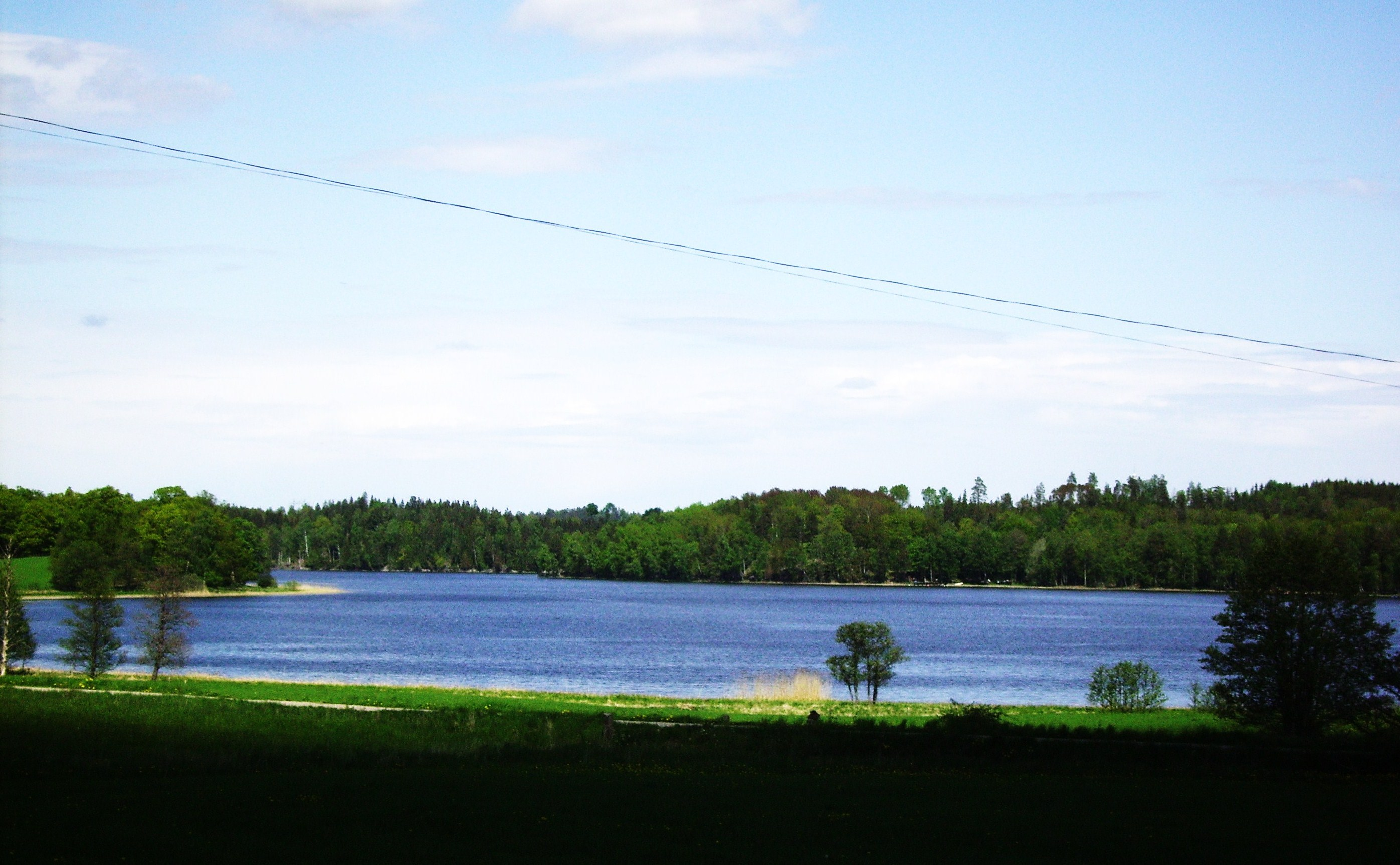 Picture of lake Sillen in Södermanland